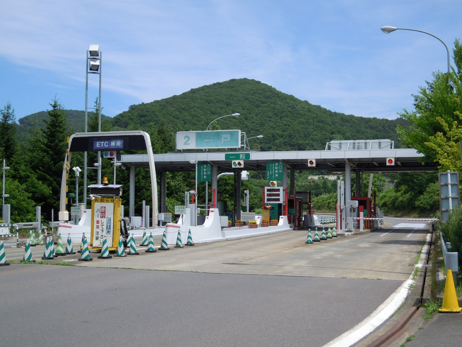 This Interchange, Ichinohe Interchange, is on Hachinohe Expressway, in Ichinohe Town, Iwate Prefecture, Japan.